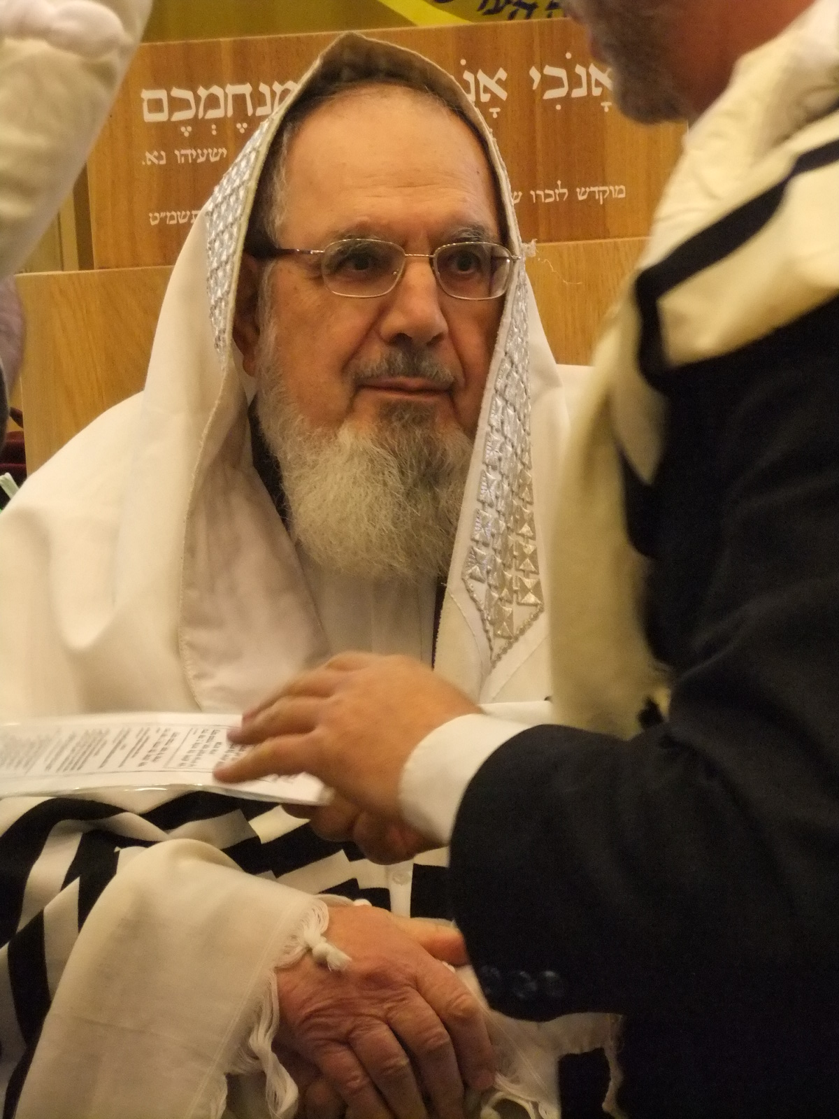 Rabbi Nachum Rabinovitch as Sandak